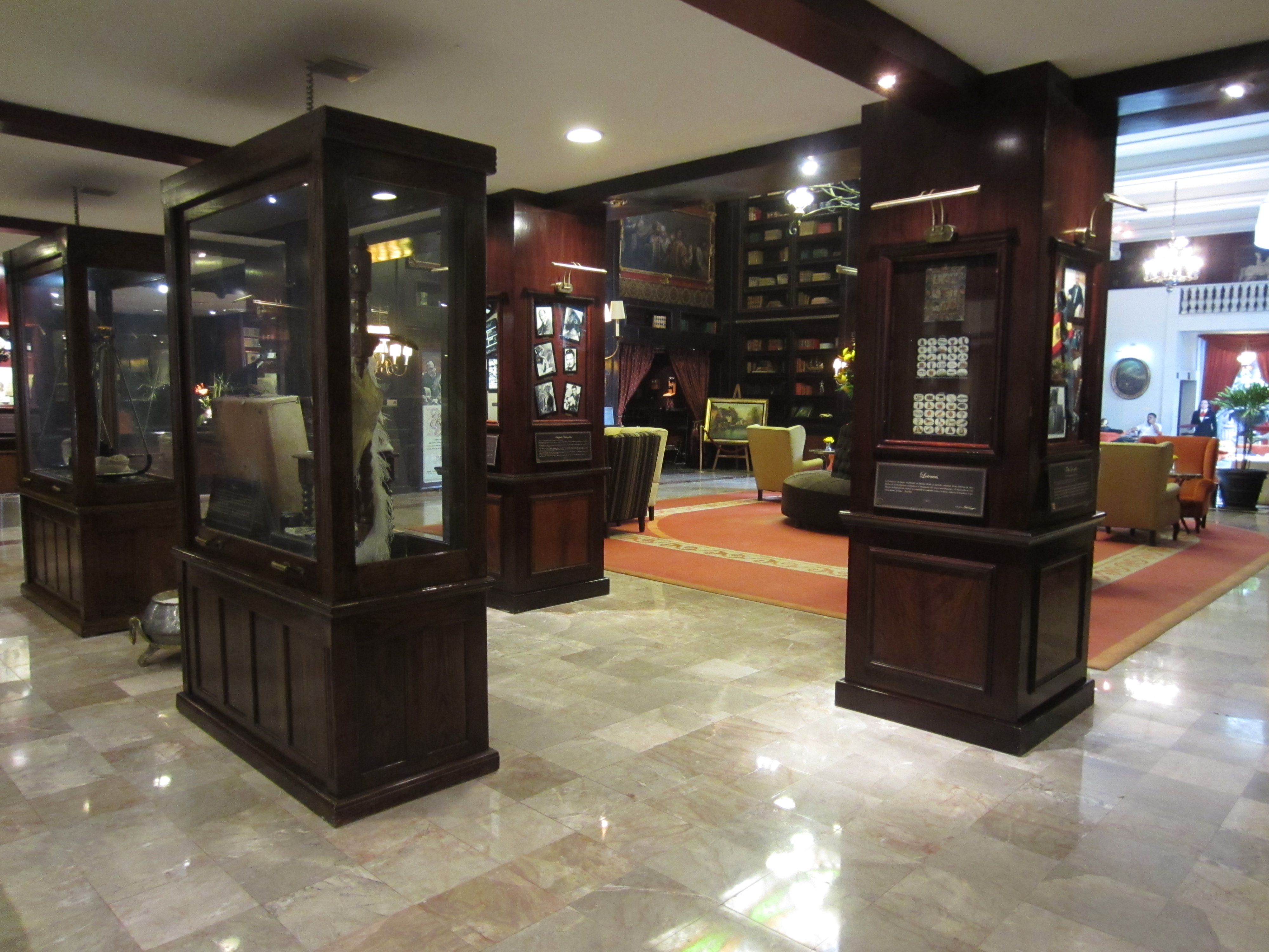 Mexico City (2018)